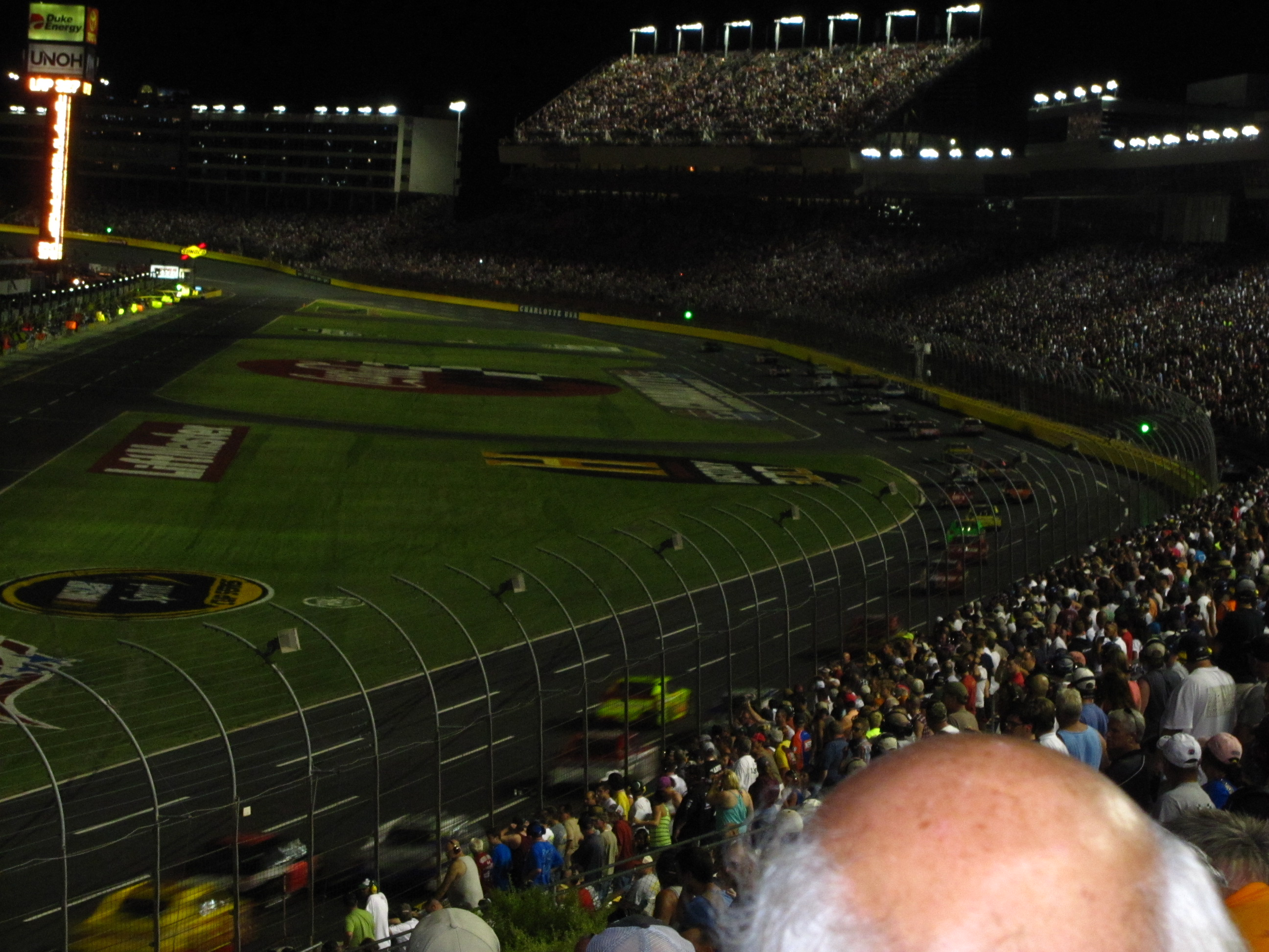 2012 Running of the Coca-Cola 600 in Concord, NC